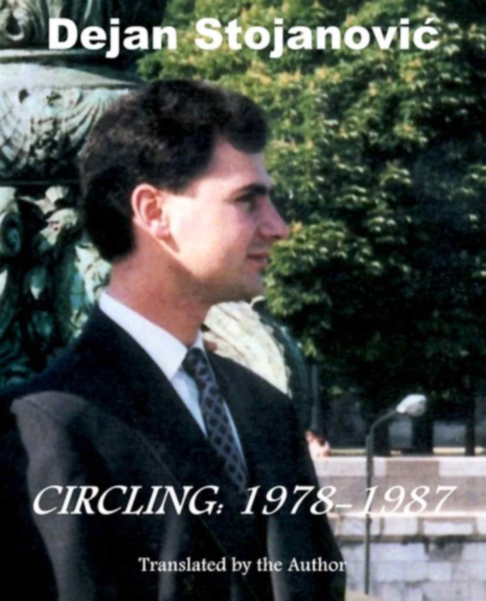 Cover page of Circling: 1978-1987 by Dejan Stojanović Translation Published 2012 by New Avenue Books in USA. Language: English. Edition Notes: Poetry in translation. Other Titles: Krugovanje: 1978-1987 Copyright Date: 2012 (Original: 1993, 1998, 2000) Translation of Krugovanje: 1978-1987 Translated From the Serbian by Dejan Stojanović The Physical Object: Format: E-book Number of pages: 74 ID Numbers: Open Library OL25374362M ISBN 13 9781623147921 ASIN: B0089VHNCA Amazon Open Library